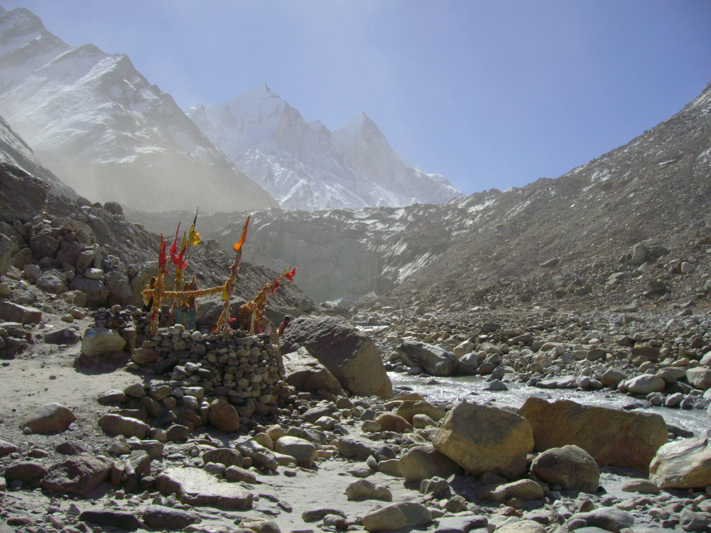 Gaumukh (Cow's mouth), the end of Gangotri glacier, start of Bhagirathi River in Uttarakhand, India